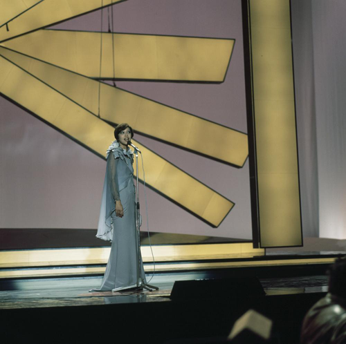 Sandra Reemer at a rehearsal for the Eurovision Song Contest 1976.